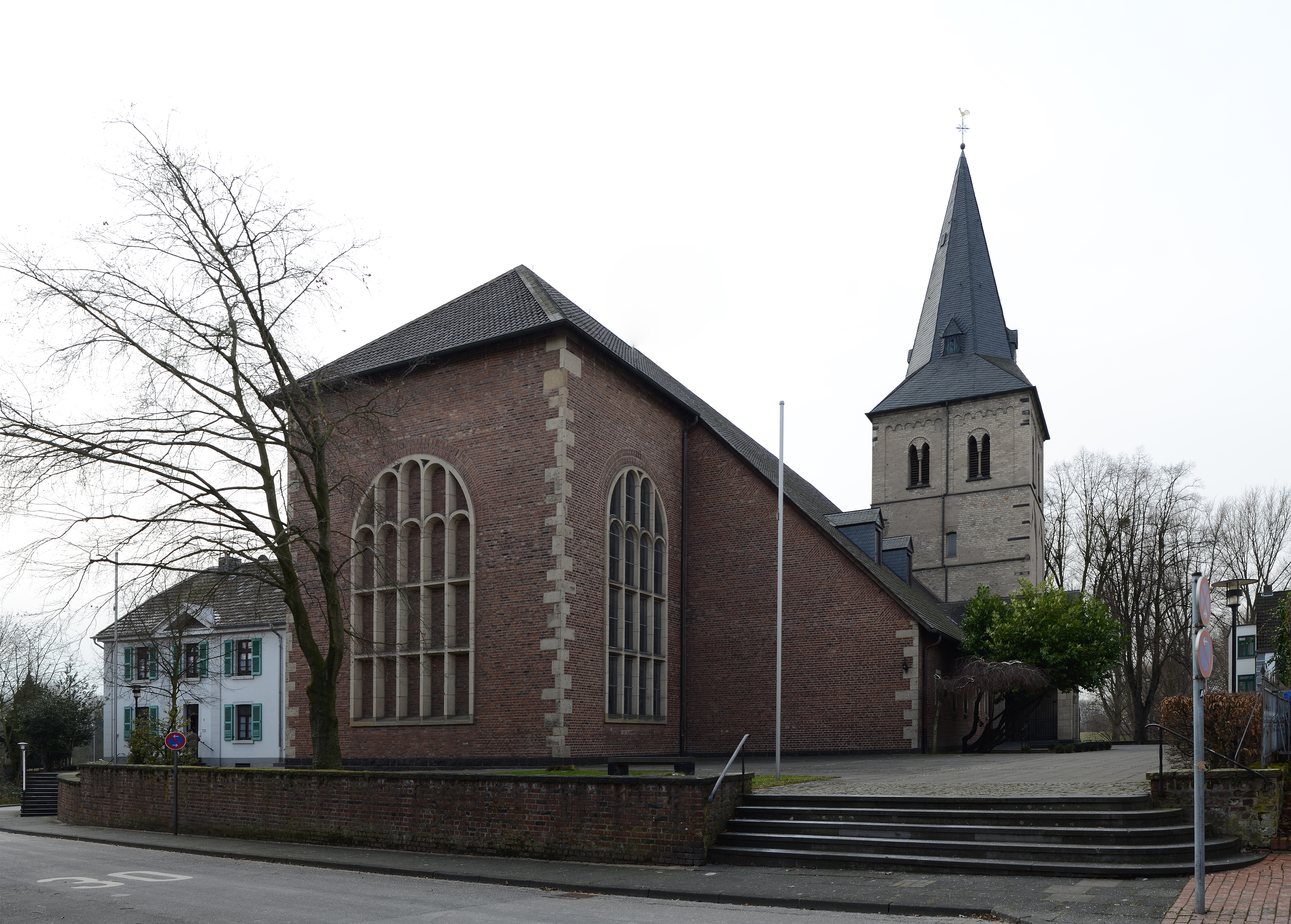 Monheim am Rhein (North Rhine-Westphalia, Germany) – Catholic Saint Gereon Churches with the rectory on the left This image shows a heritage building in Germany, located in the North Rhine-Westphalian city Monheim am Rhein. This photograph was taken with a Nikon D7000